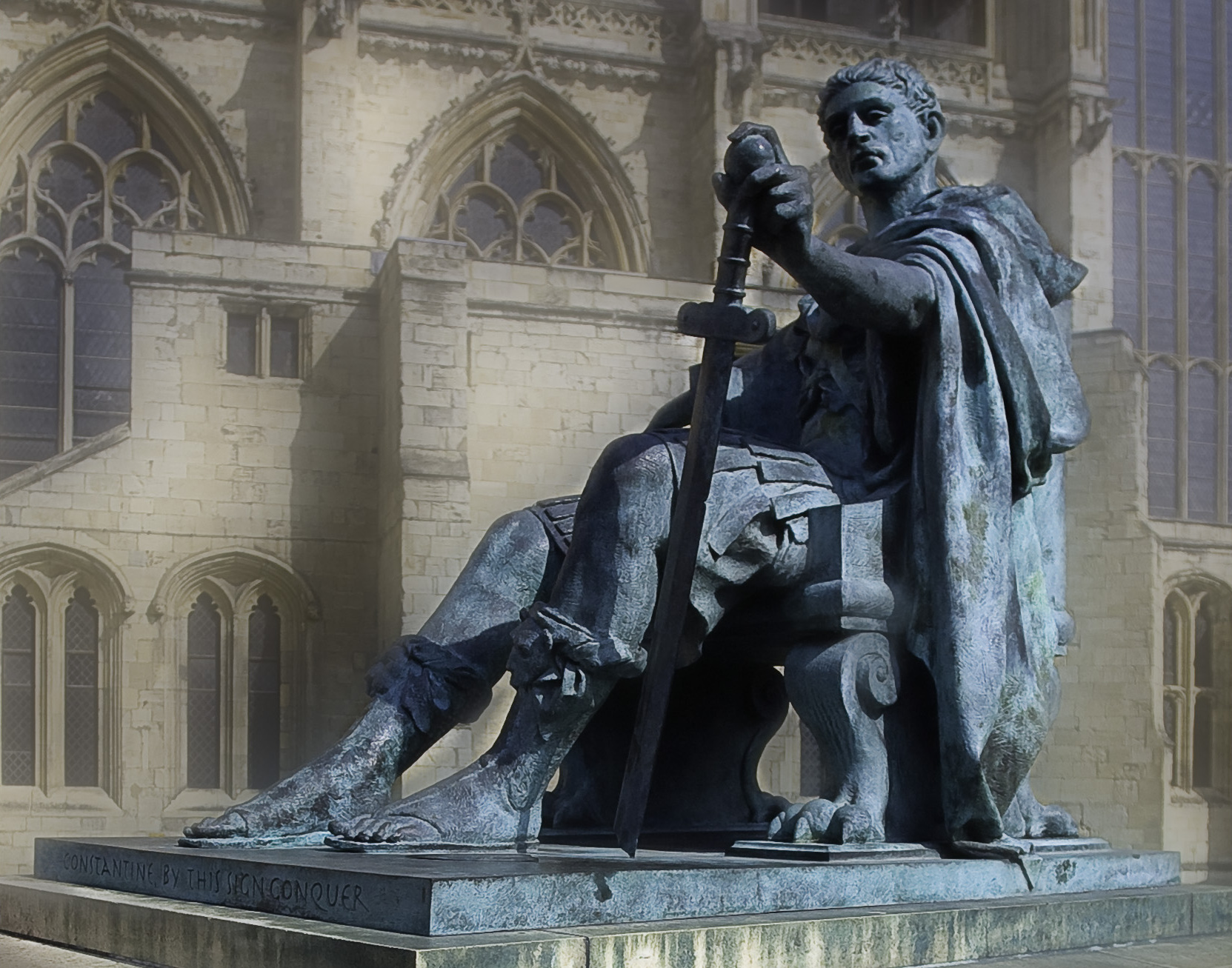 Bronze statue of Constantine the Great outside York Minster, England.